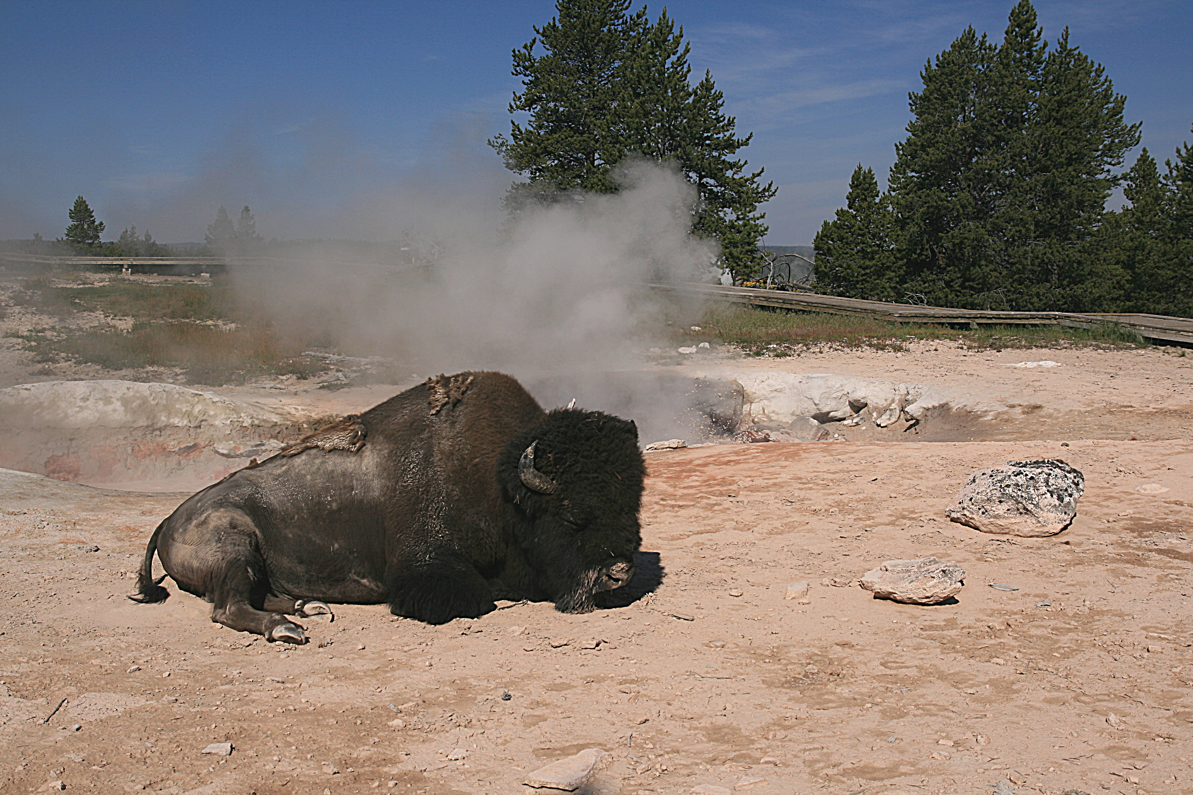 American bison ,Bison bisonis resting at hot spring in Yellowstone National Park